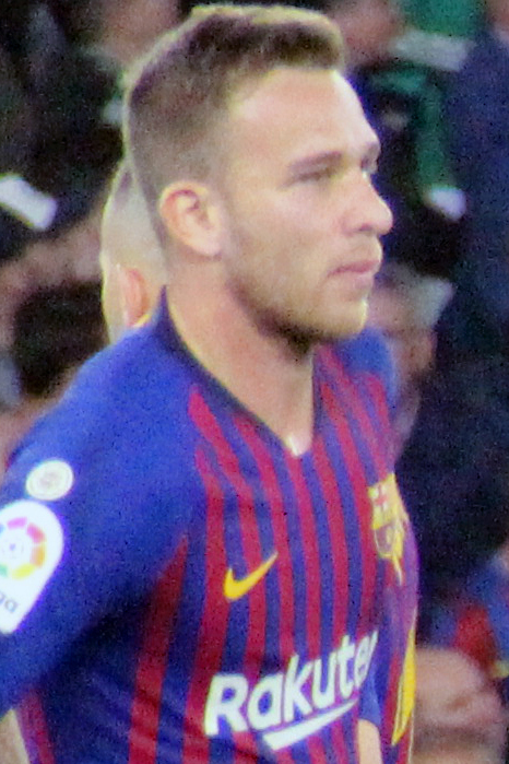 Arthur Melo playing for FC Barcelona vs Real Betis, 17/03/2019